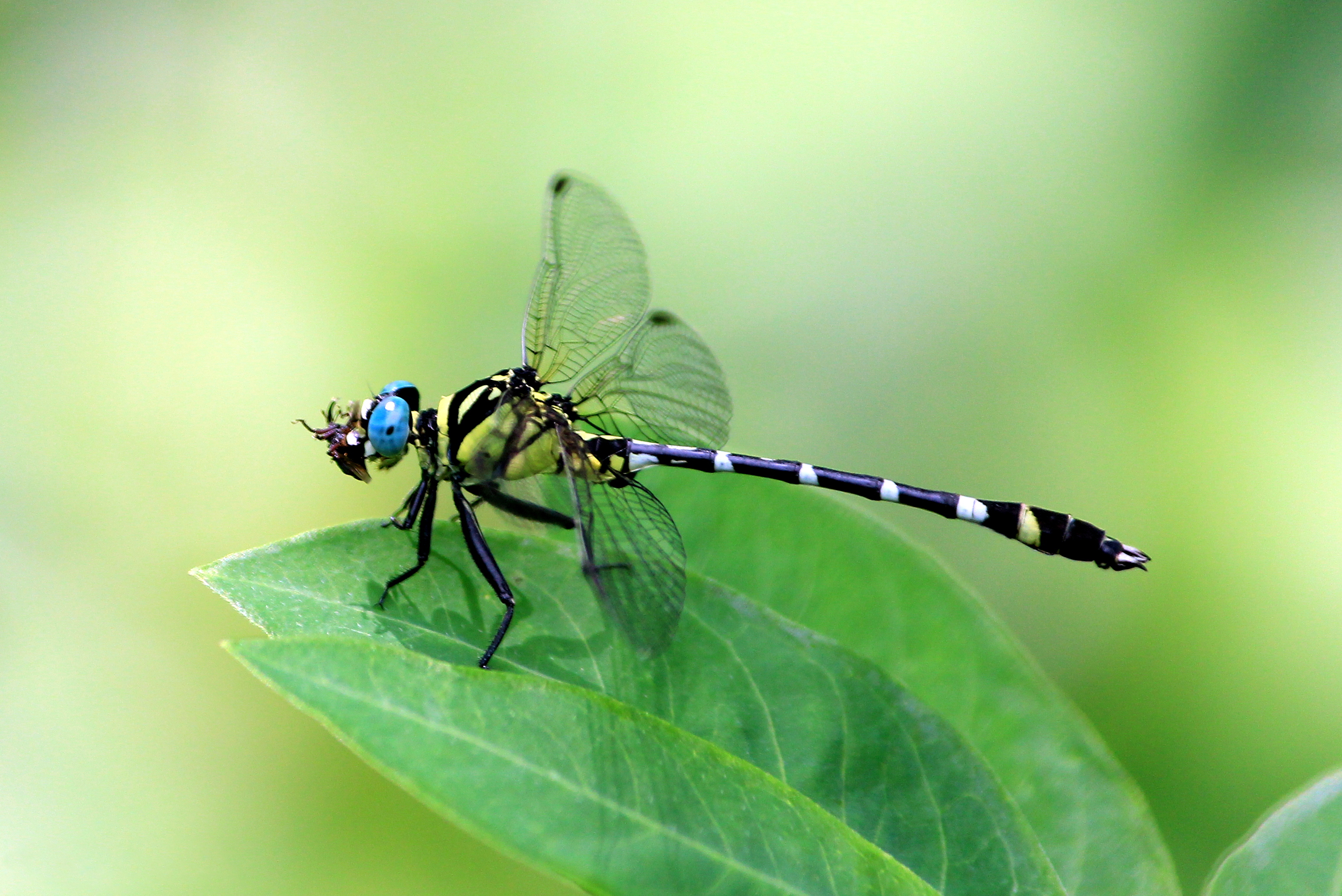 Microgomphus torquatus found at Onde, Maharashtra, India. Distribution Maharashtra, Peninsular India. Altitude range - recorded from Poona (now Pune) which is at 560 m and no further information is available. Fraser (1934) states on habitat etc. around Poona he states "males may be seen resting on stones or rocks in the bed of the Byrobah Nullah and also in the neighbouring canal and Mullah River, Poona, or they may be beaten up from evergreens bordering these streams"